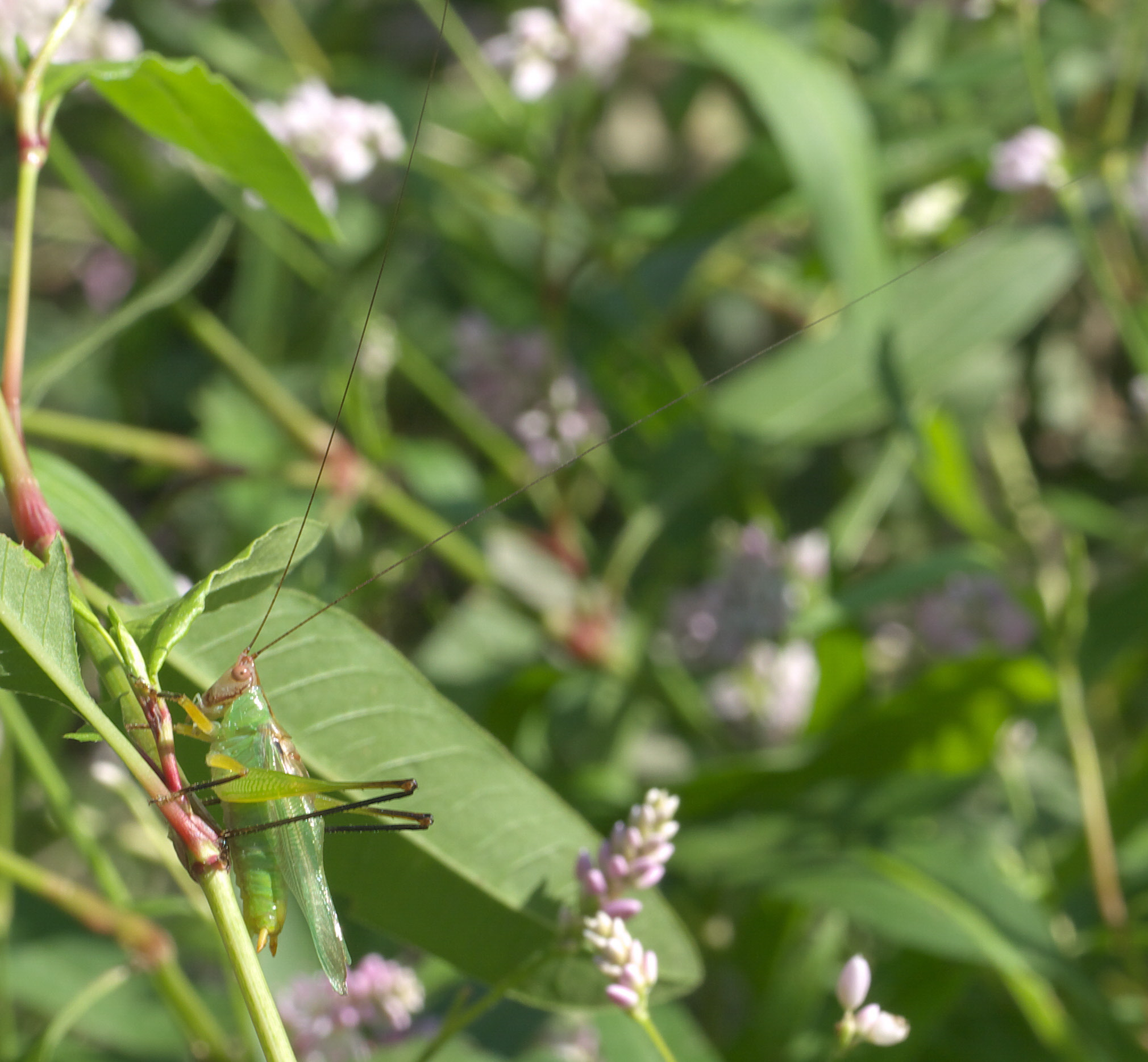 Orchelimum nigripes, Black-legged Meadow Katydid, ID Confidence: 75